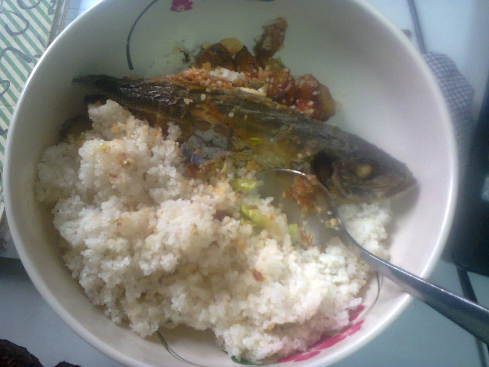 Akyeke